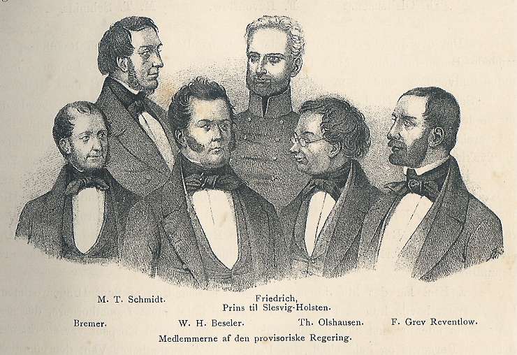 The members of the provisional government of Schleswig Holstein 1848.